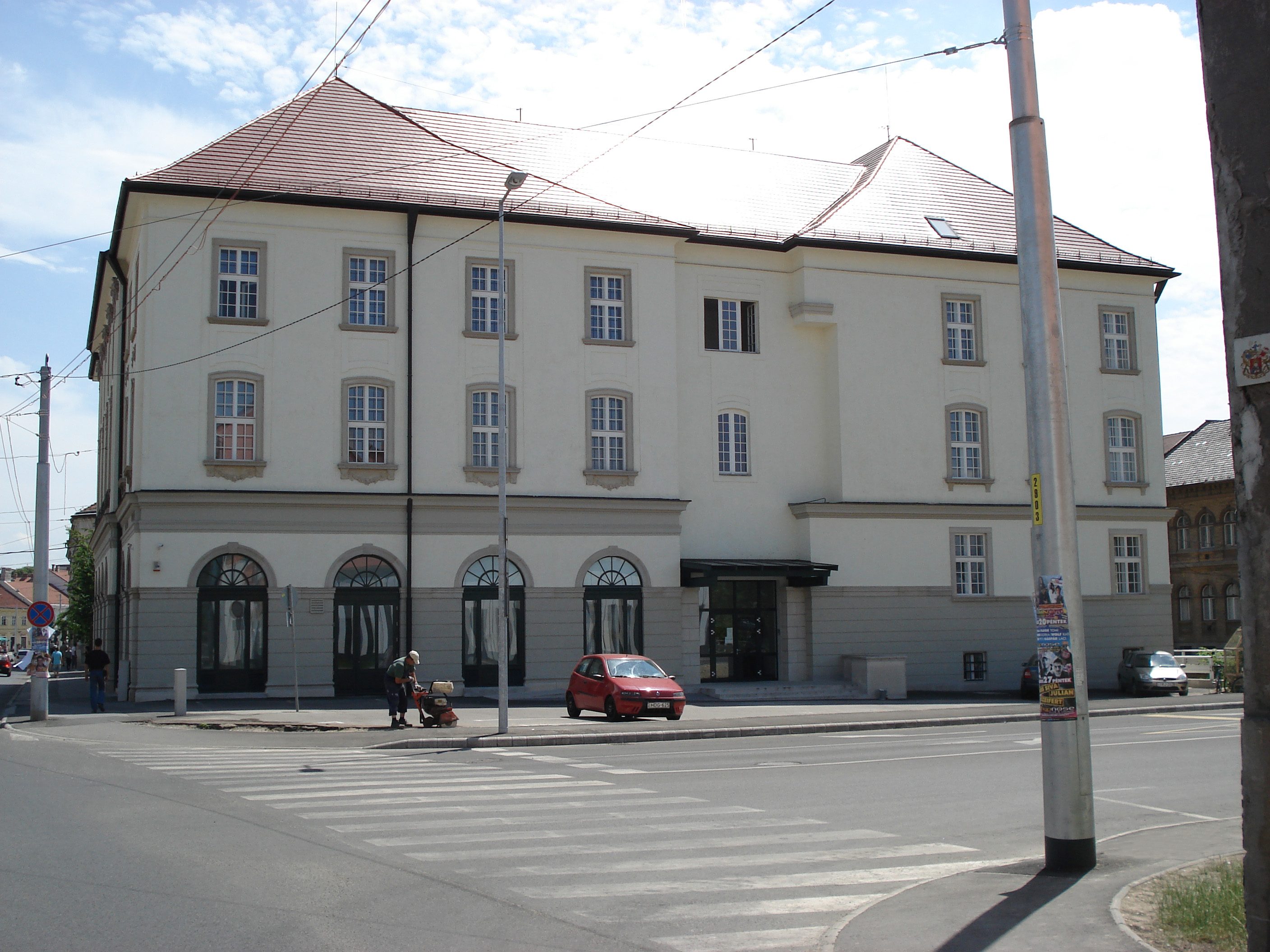 Music Palace Miskolc, Hungary, 2011